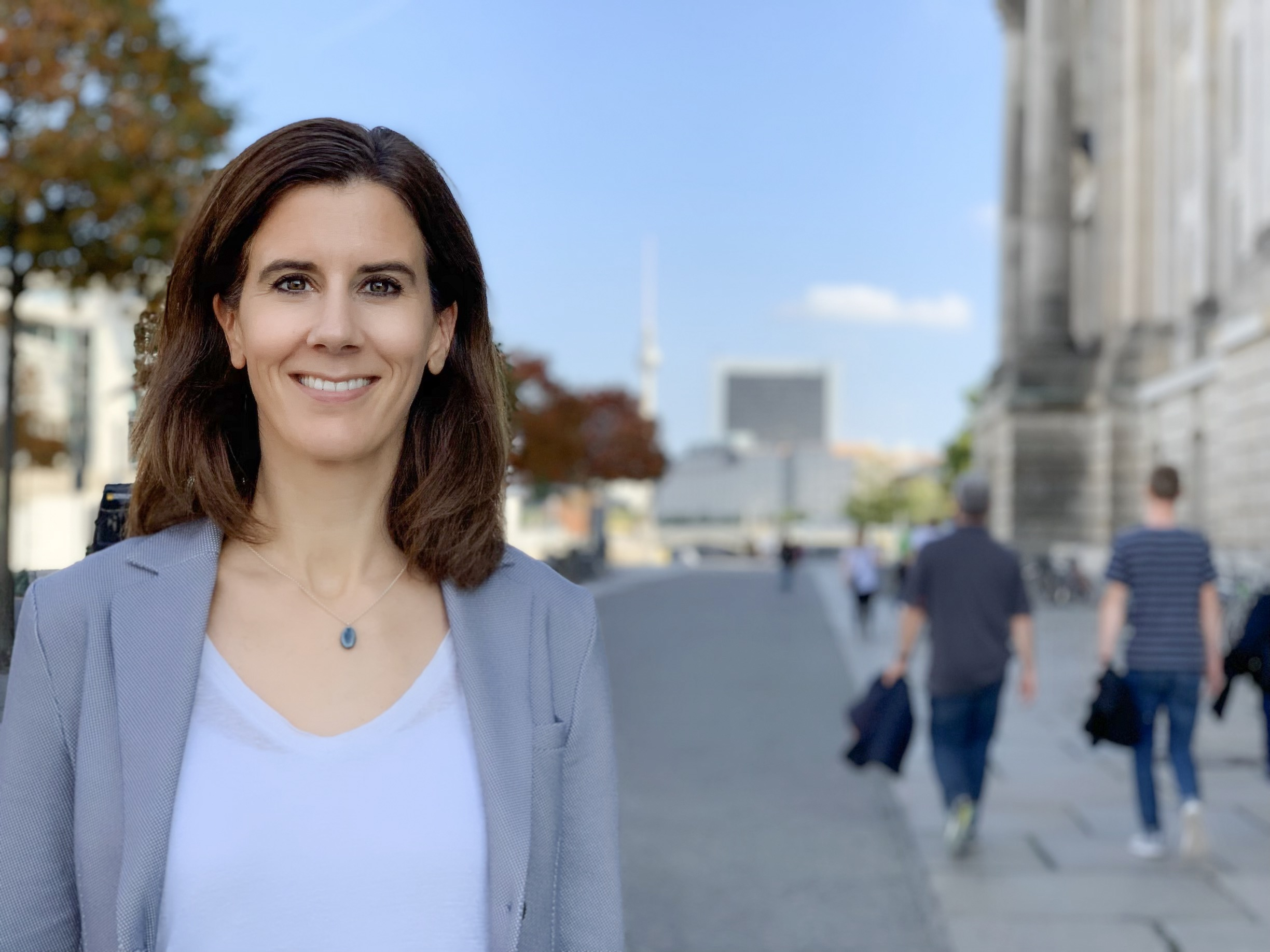 Katja Suding